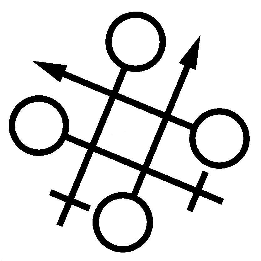 Logo sexology.